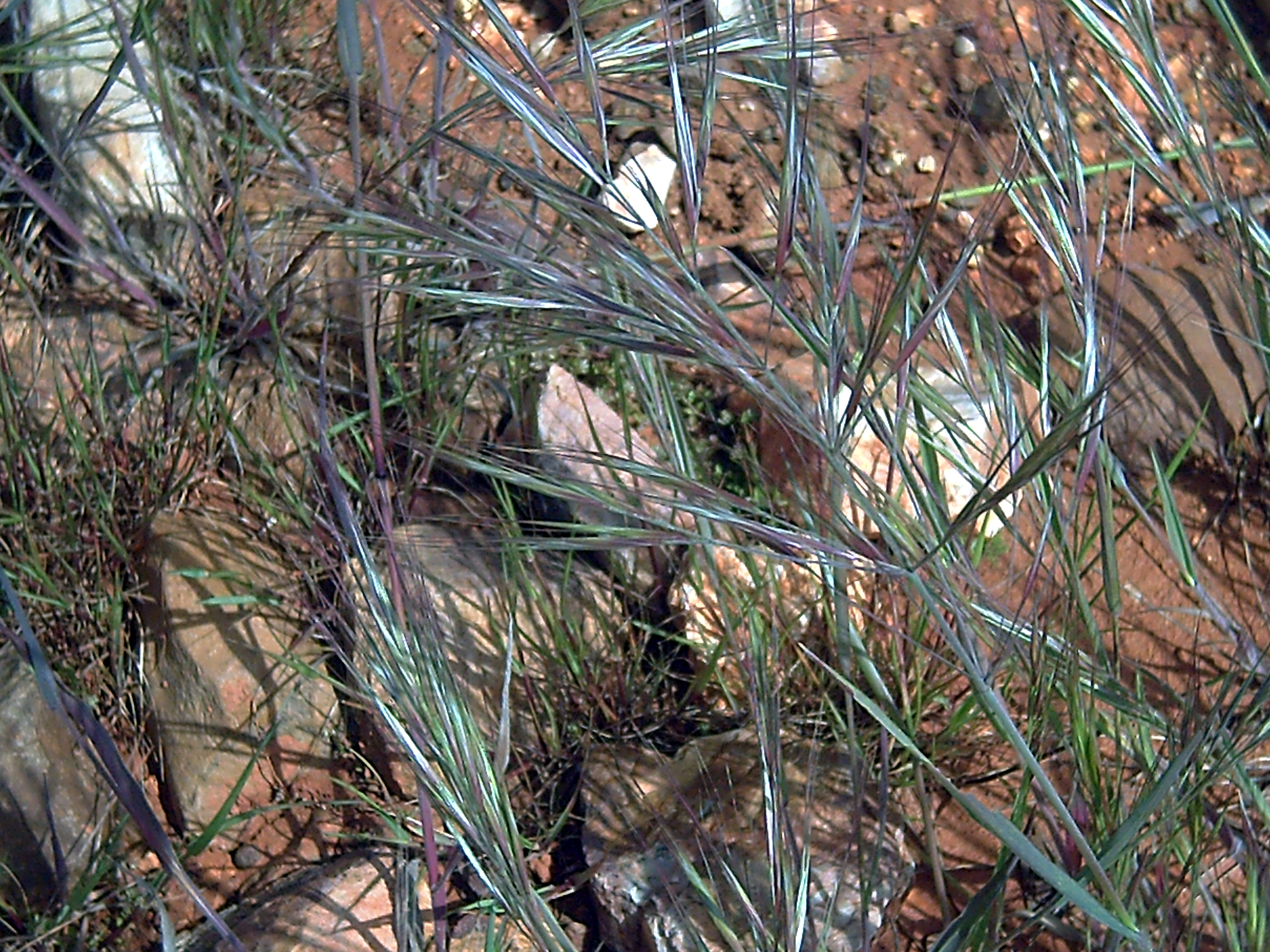 Bromus madritensis Inflorescence Close up, Campo de Calatrava, Spain